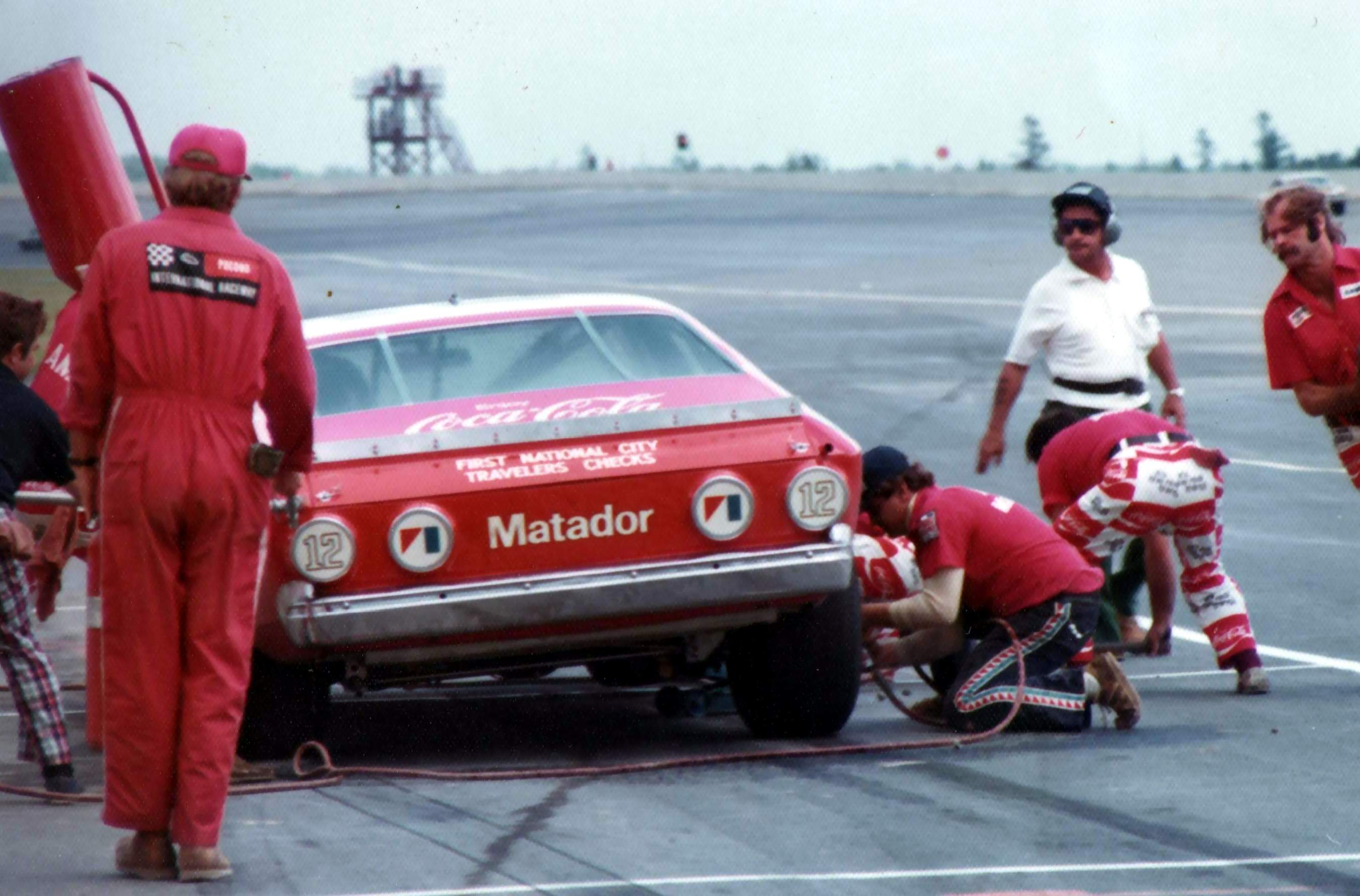 An AMC Matador during a pit stop at a NASCAR event